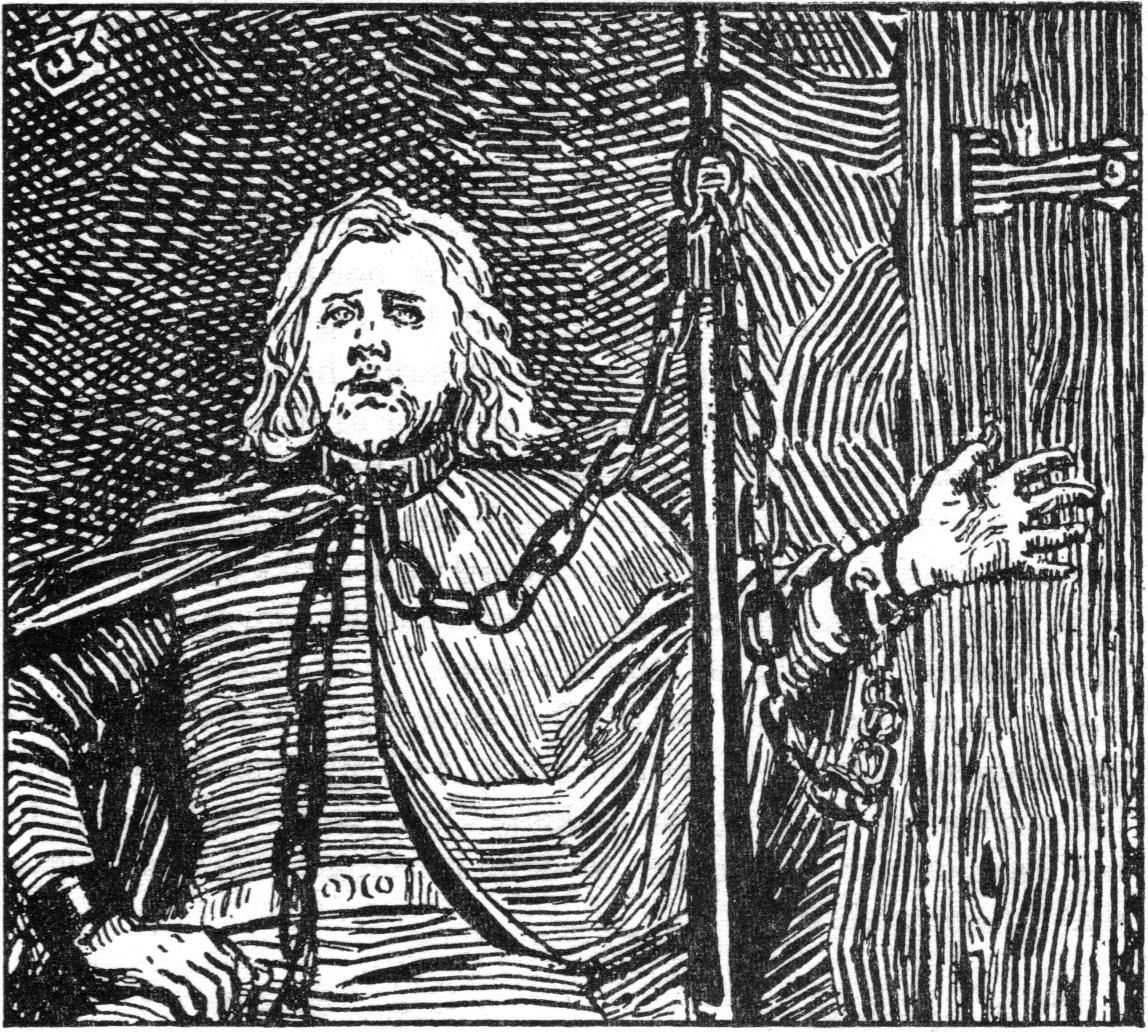 Christian Krohg: Illustration for Olav den helliges saga, Heimskringla 1899-edition.